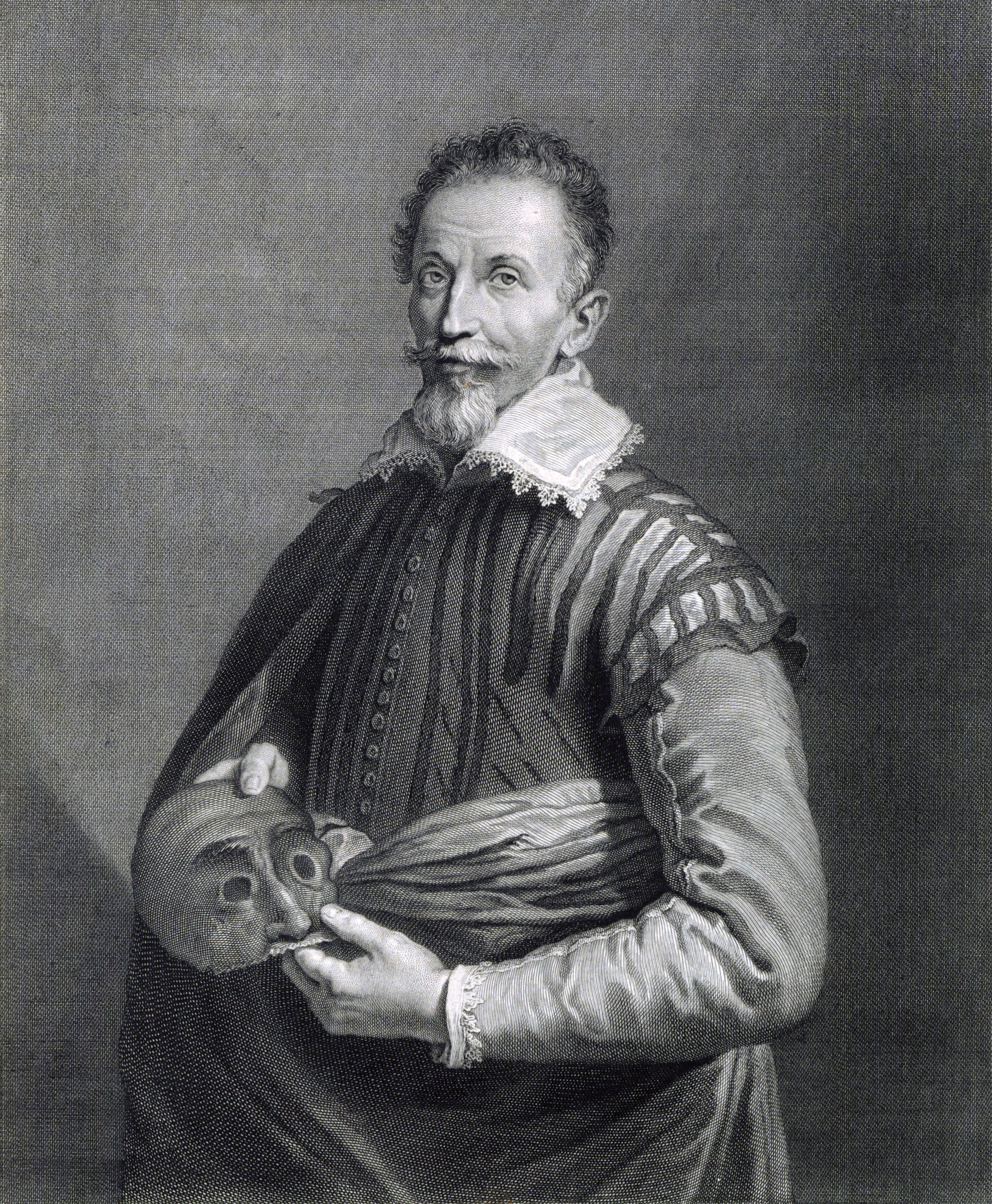 Portrait of an Actor after Domenico Fetti, etching and engraving from the Cabinet Crozat. The subject of this portrait is uncertain: although the British Museum identifies the sitter as Francesco Andreini, others have suggested Tristano Martinelli. Further information: Category:Portrait of an Actor - Domenico Fetti